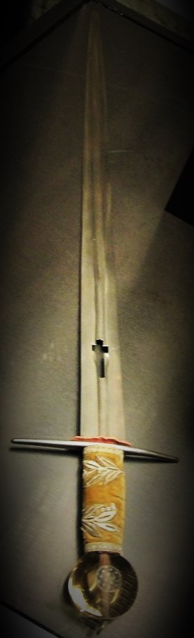 St. Wenceslaus Sword from the 10th century used in Prague during coronation ceremonies.